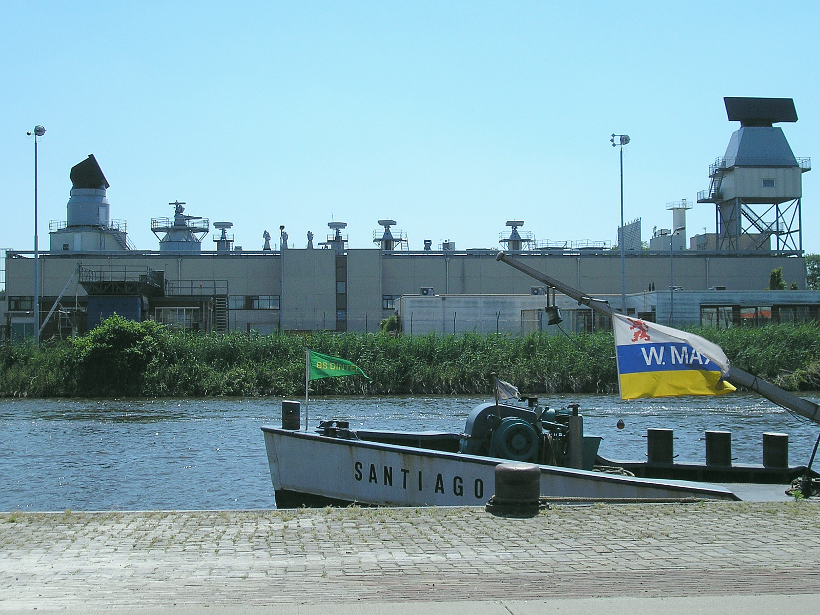 Radar and defense systems on the roof of Thales building Location: Hengelo (Overijssel), Netherlands Keywords: Radar, HSA, Hollandse Signaal Apparaten, Signaalapparaten, Thales